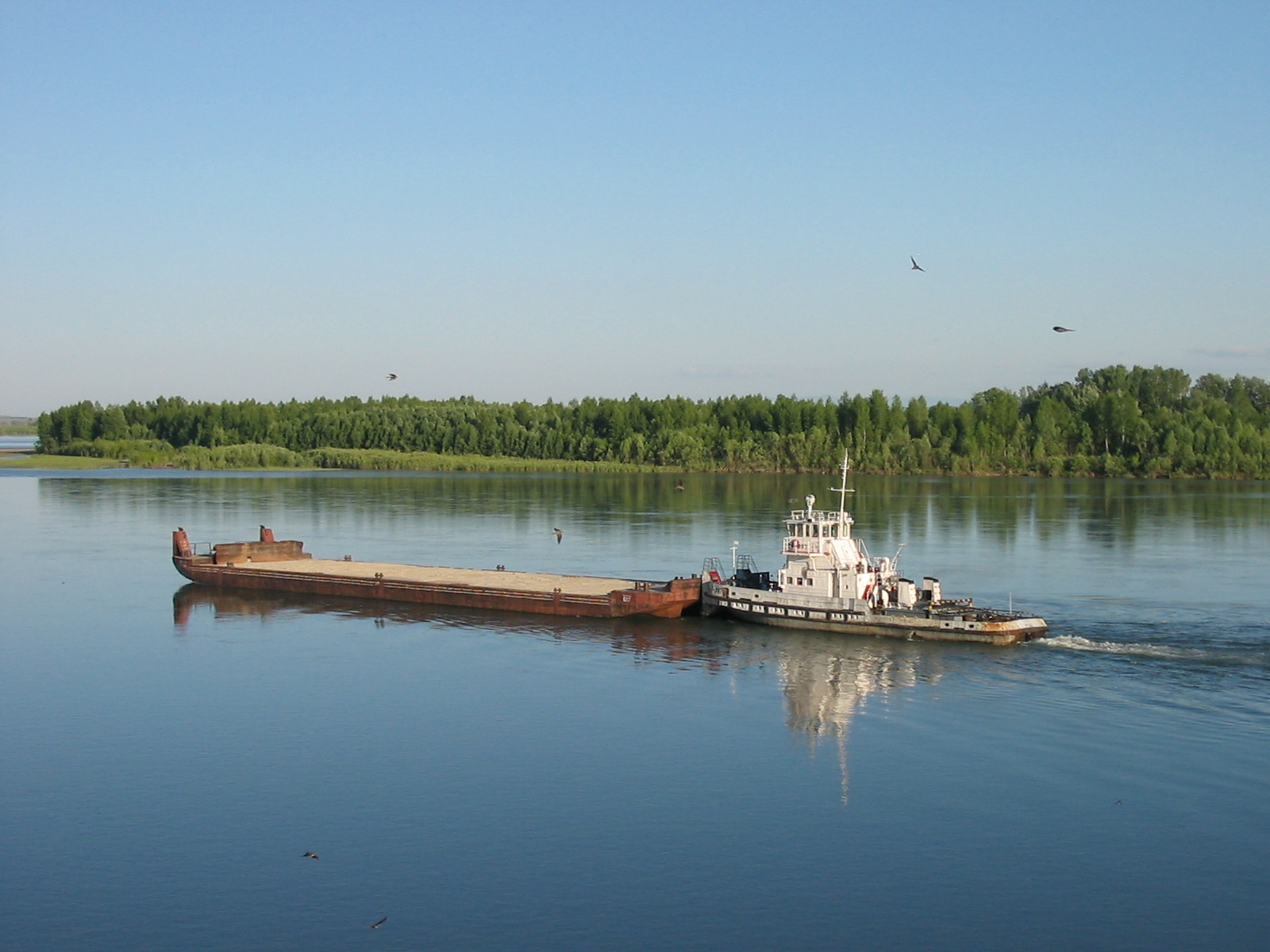 Tug-pusher ship type RT on Ob River (Russia).